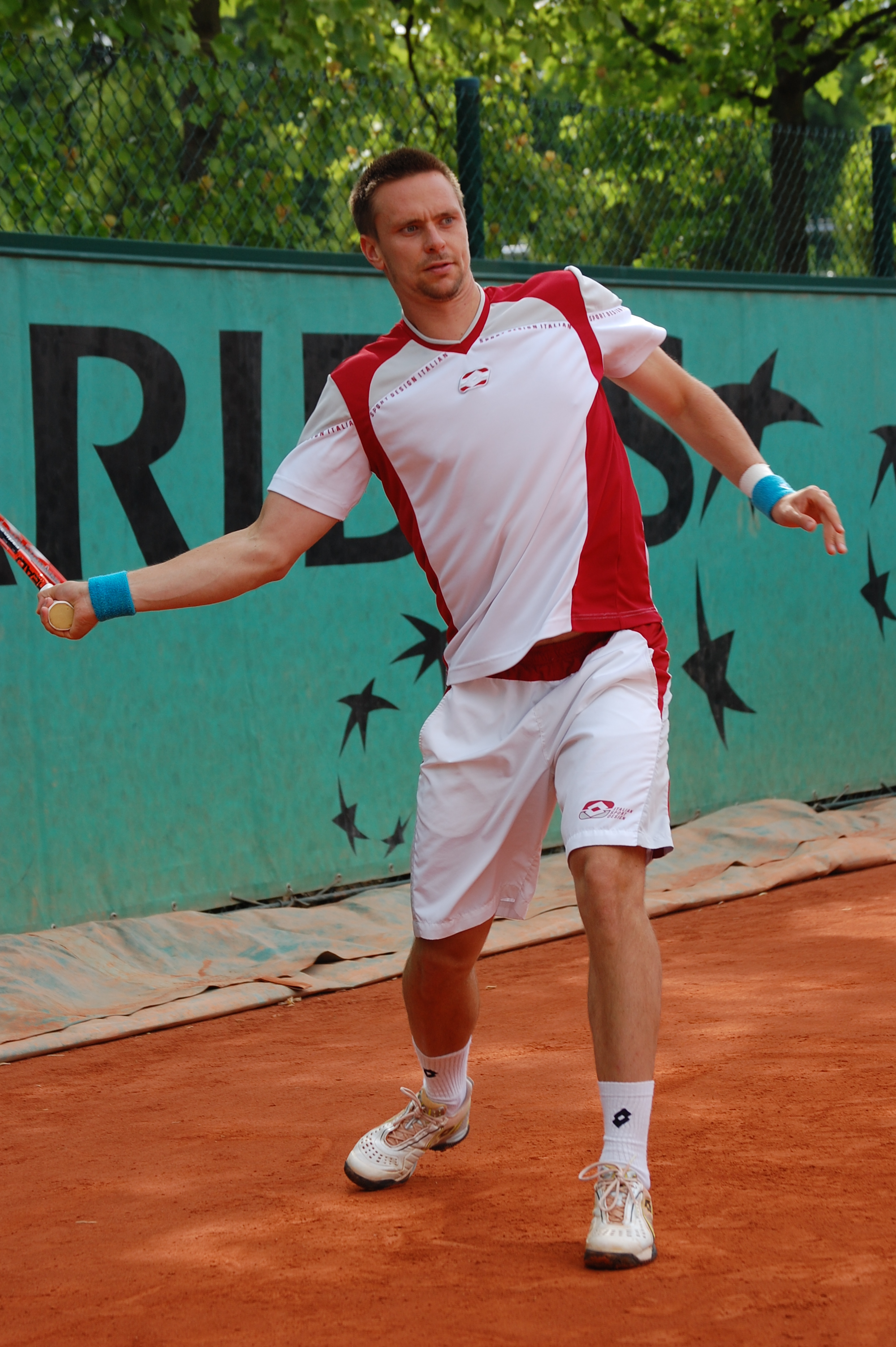 Robin Soderling training in Roland Garros 2009